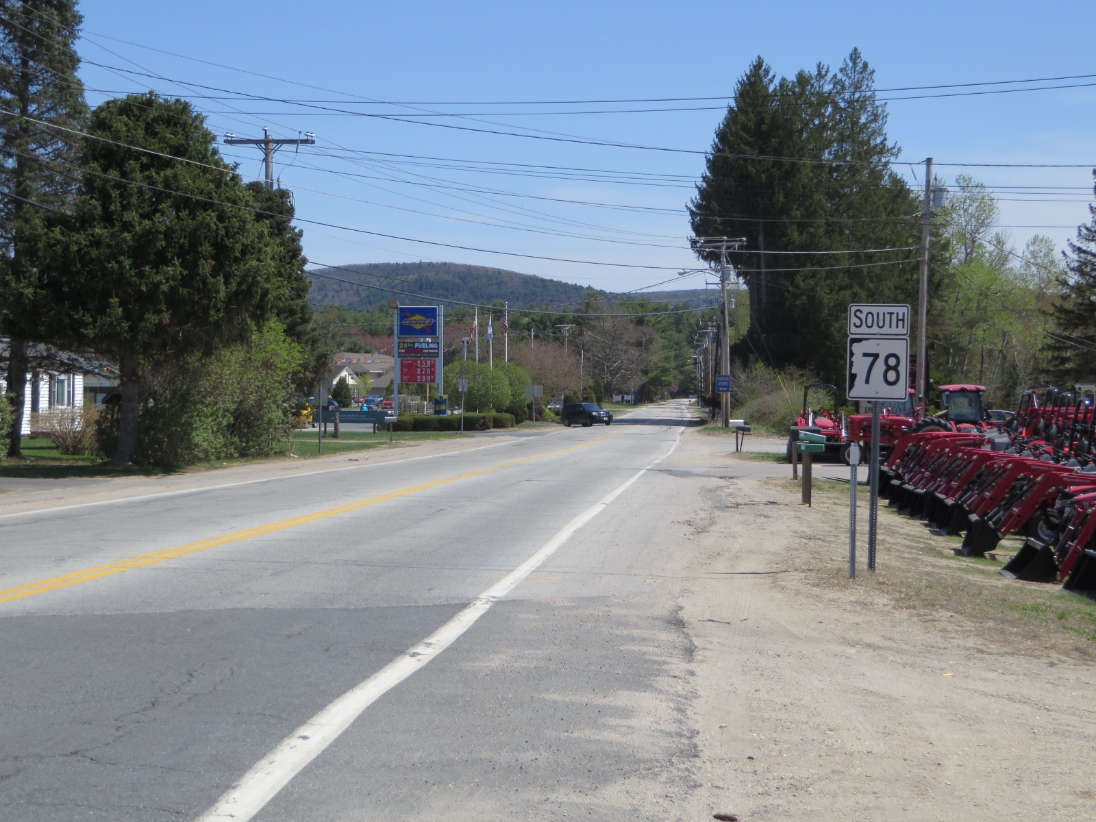 New Hampshire Route 78, northern end, Winchester. Photo by Ken Gallager, May 2015.